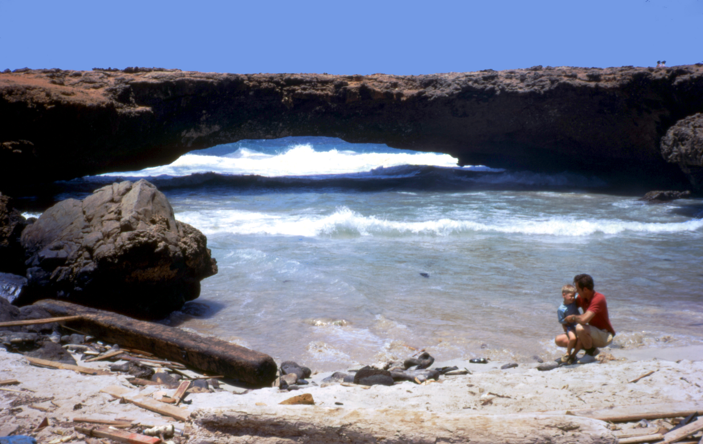 Natural Bridge in Aruba - circa June 1973. This is the larger of the two bridges. It collapsed in 2005.